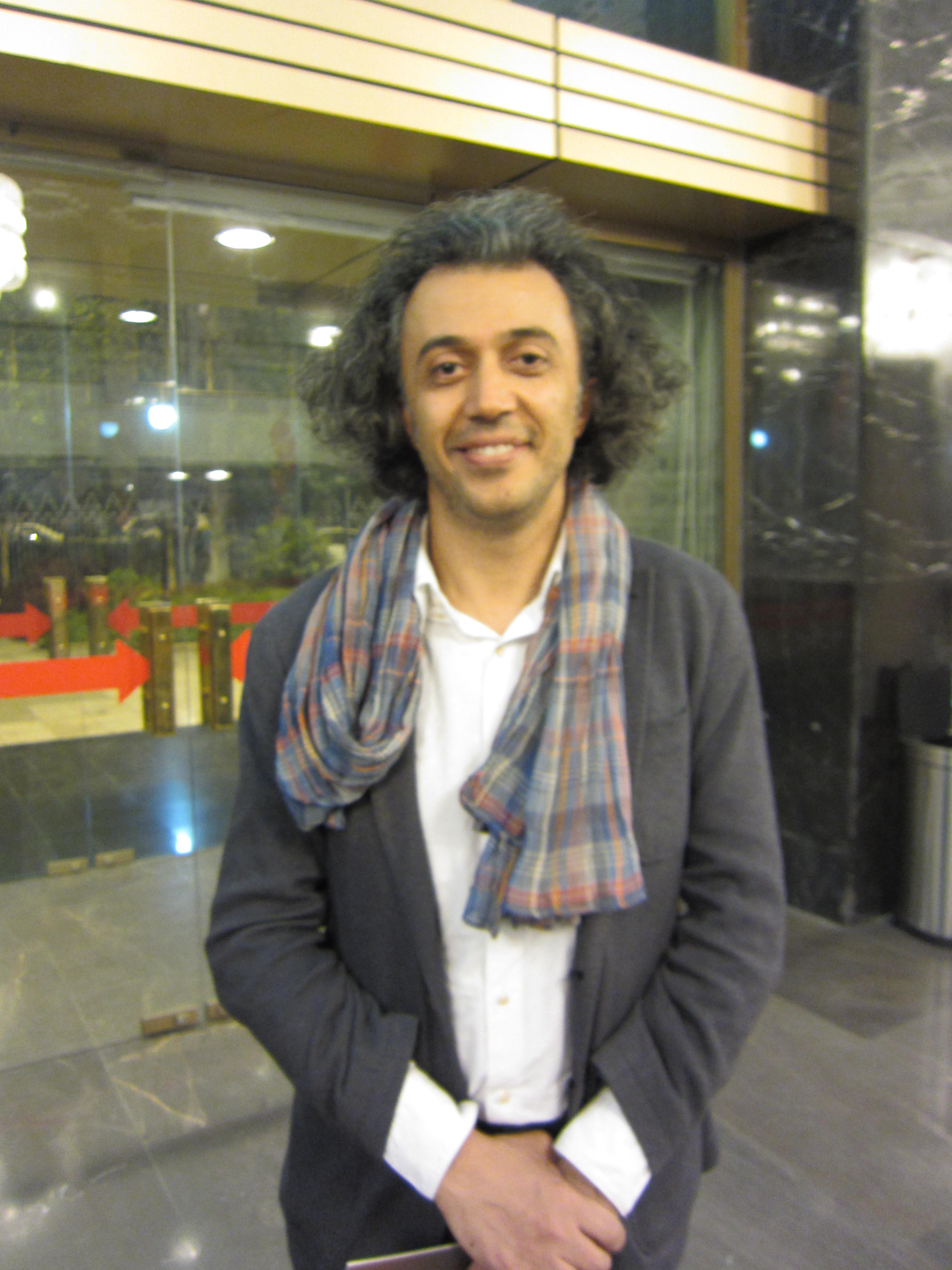 Peyman Yazdanian at the Vahdat Hall, Tehran